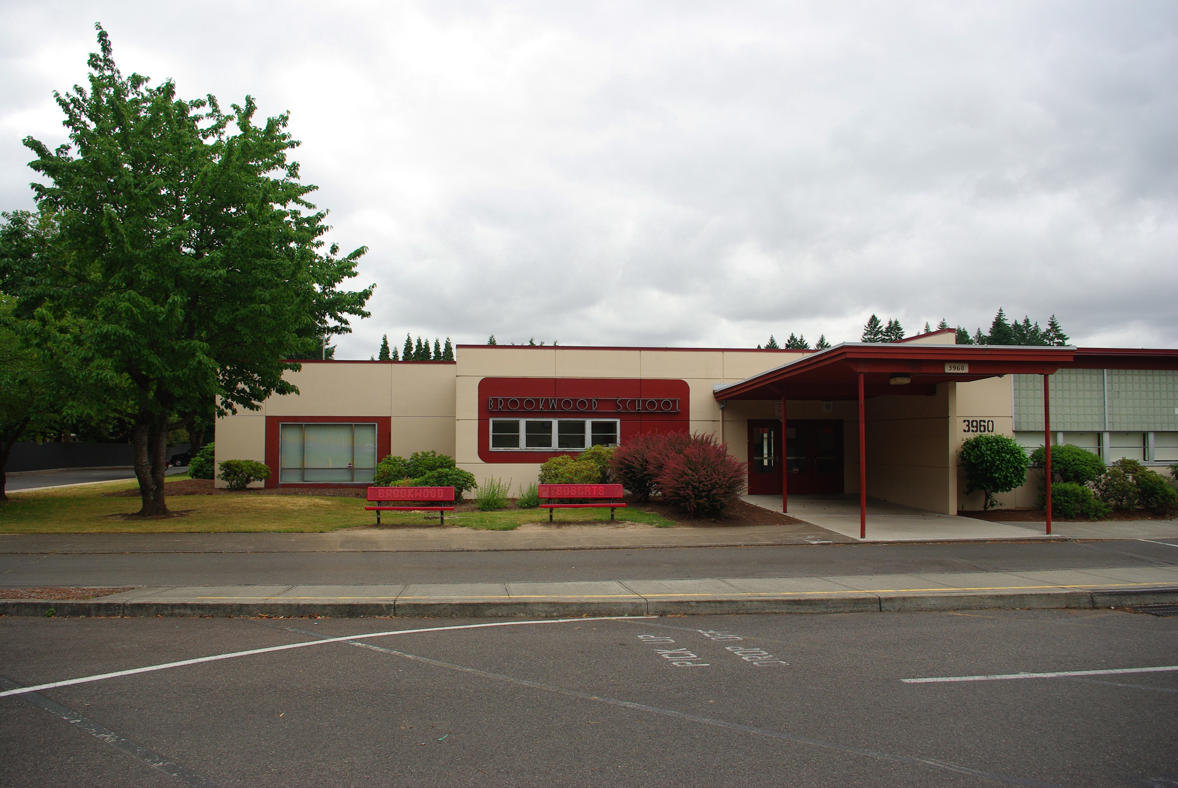 Brookwood Elementary School in Hillsboro, Oregon, USA.